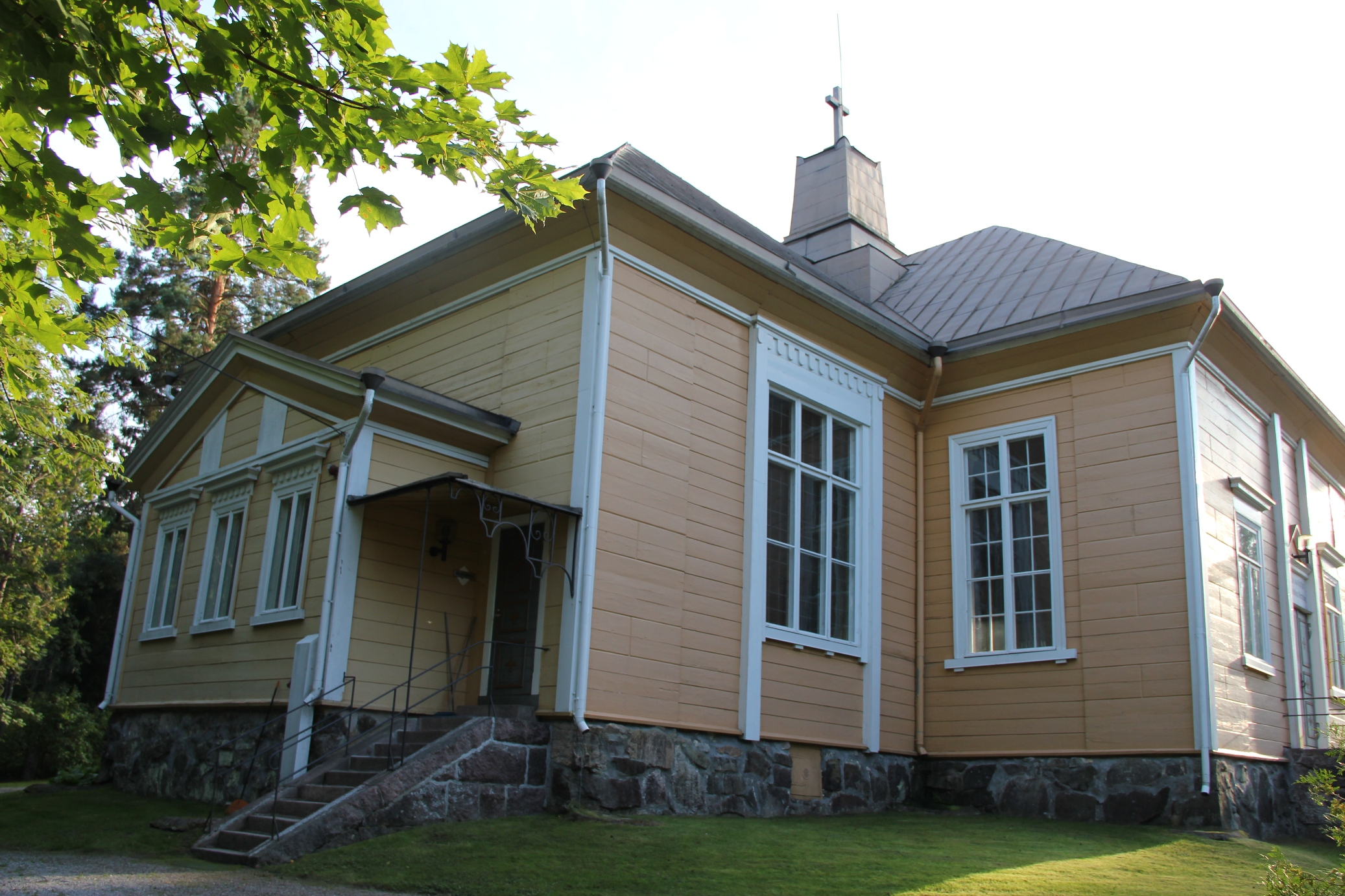 Suomusjärvi Church (sacristy end of the church), Suomusjärvi, Salo, Finland